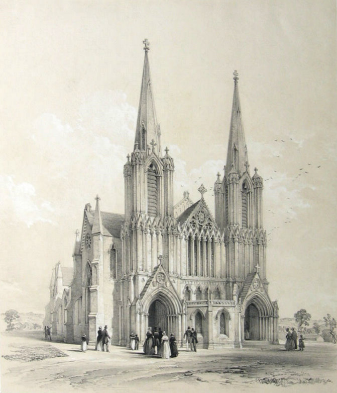 Exterior View of the Proposed New Church Kentish Town St. Pancras (St. John the Baptist)